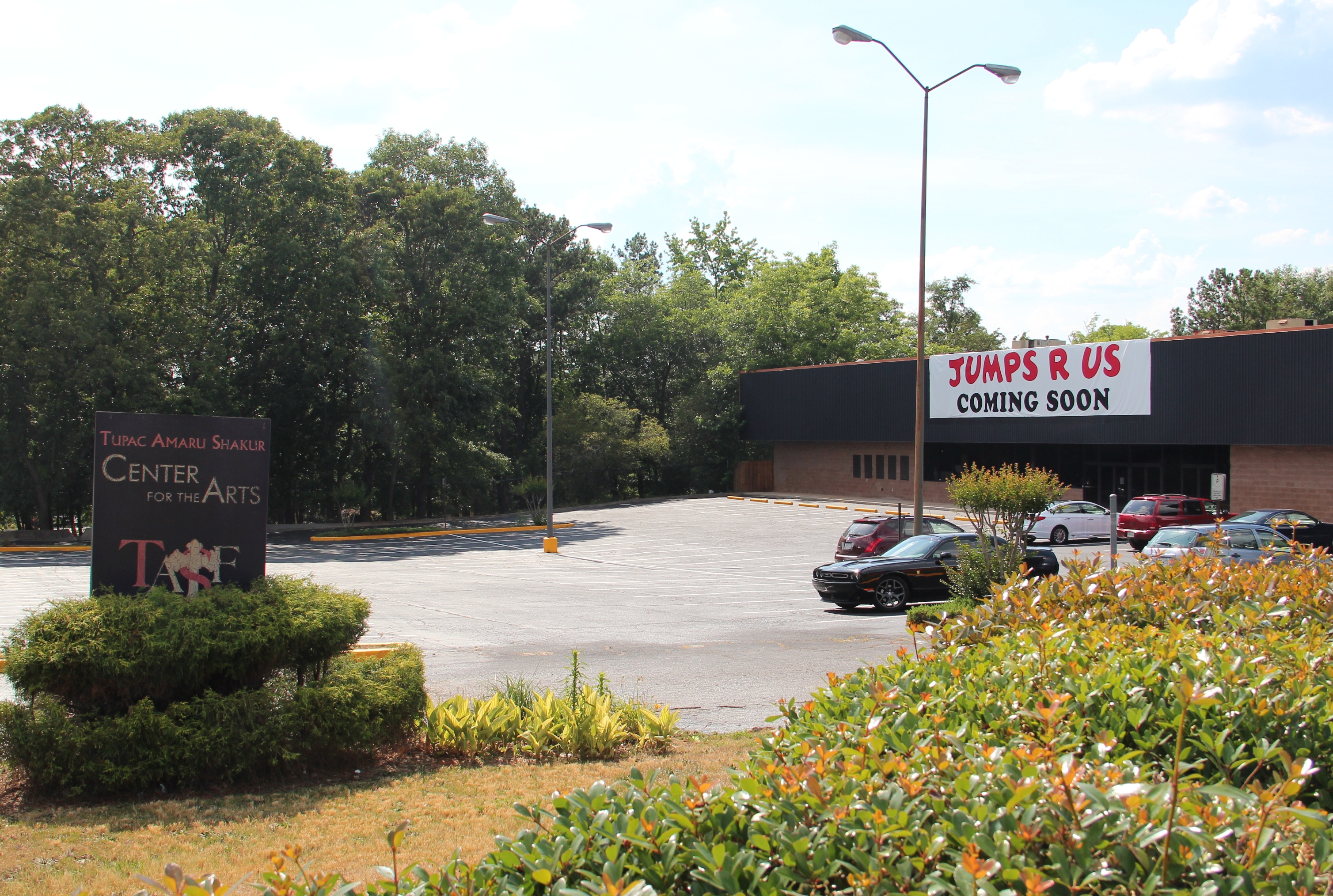 The former site of the Tupac Amaru Shakur Center for the Arts in 2016.